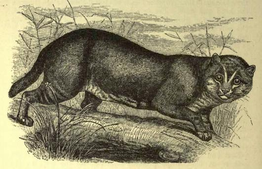 Flat-headed cat